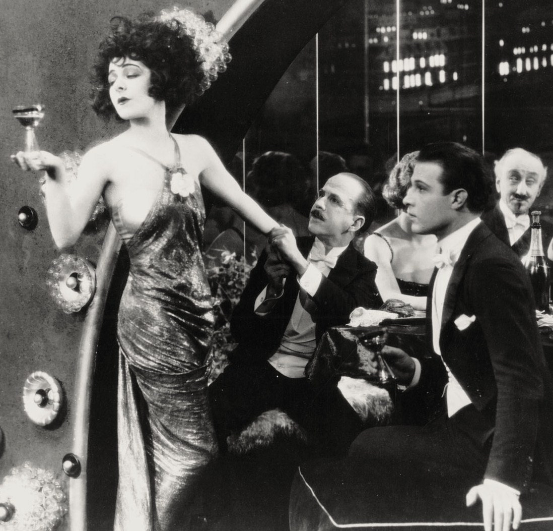 L. to R. : Alla Nazimova, Arthur Hoyt & Rudolph Valentino in Camille - cropped screenshot (original image : see source)